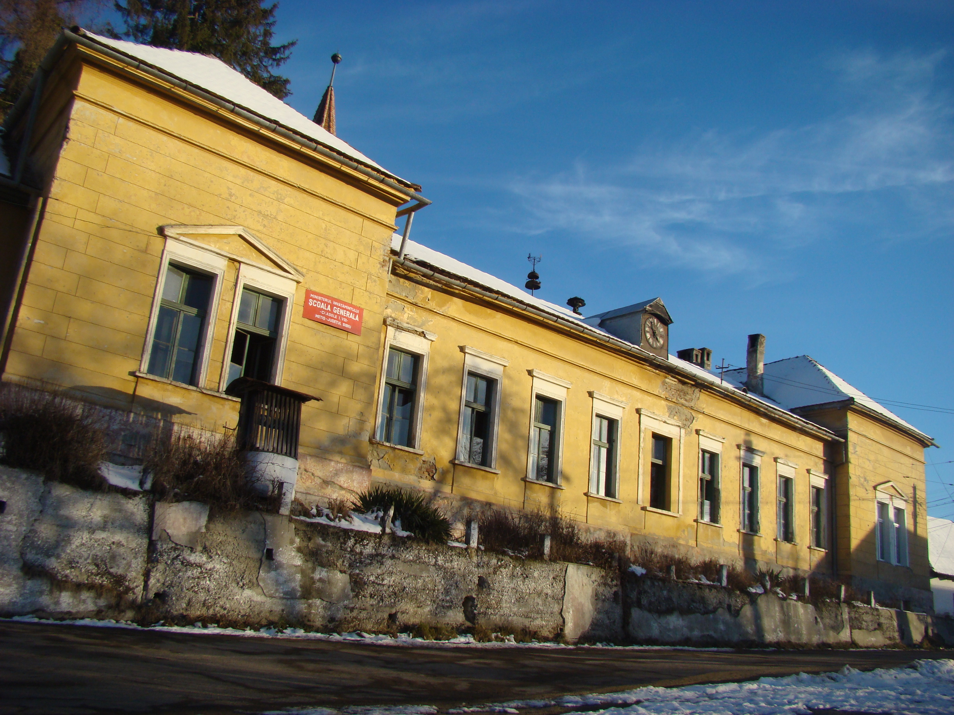 Metiș, Sibiu county, Romania